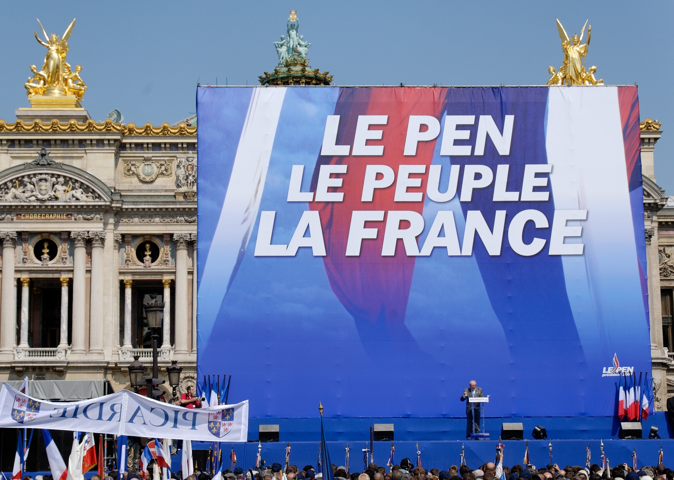 Jean-Marie Le Pen speaking at his National Front party's annual tribute to Joan of Arc in Paris.